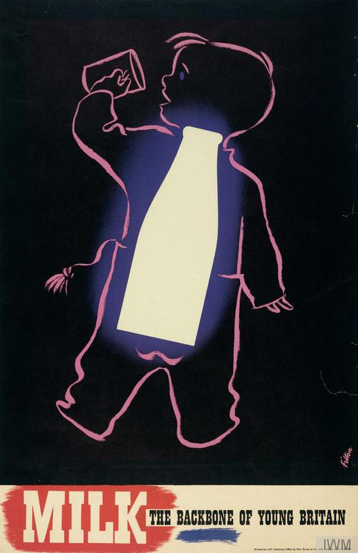 A pink outline of a young boy, seen from the back, drinking milk from a cup held in his left hand, with the image of a large milk bottle superimposed on his back.